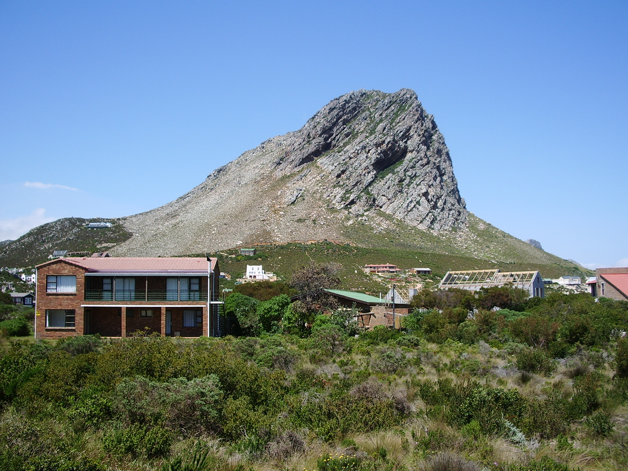 The Klein-Hangklip (Afrikaans for "small hanging rock") at Rooi-Els rises to 280 m. The real Hangklip of 420 m which marks the entrance to False Bay is about 7 km distant, and out of view on the right.